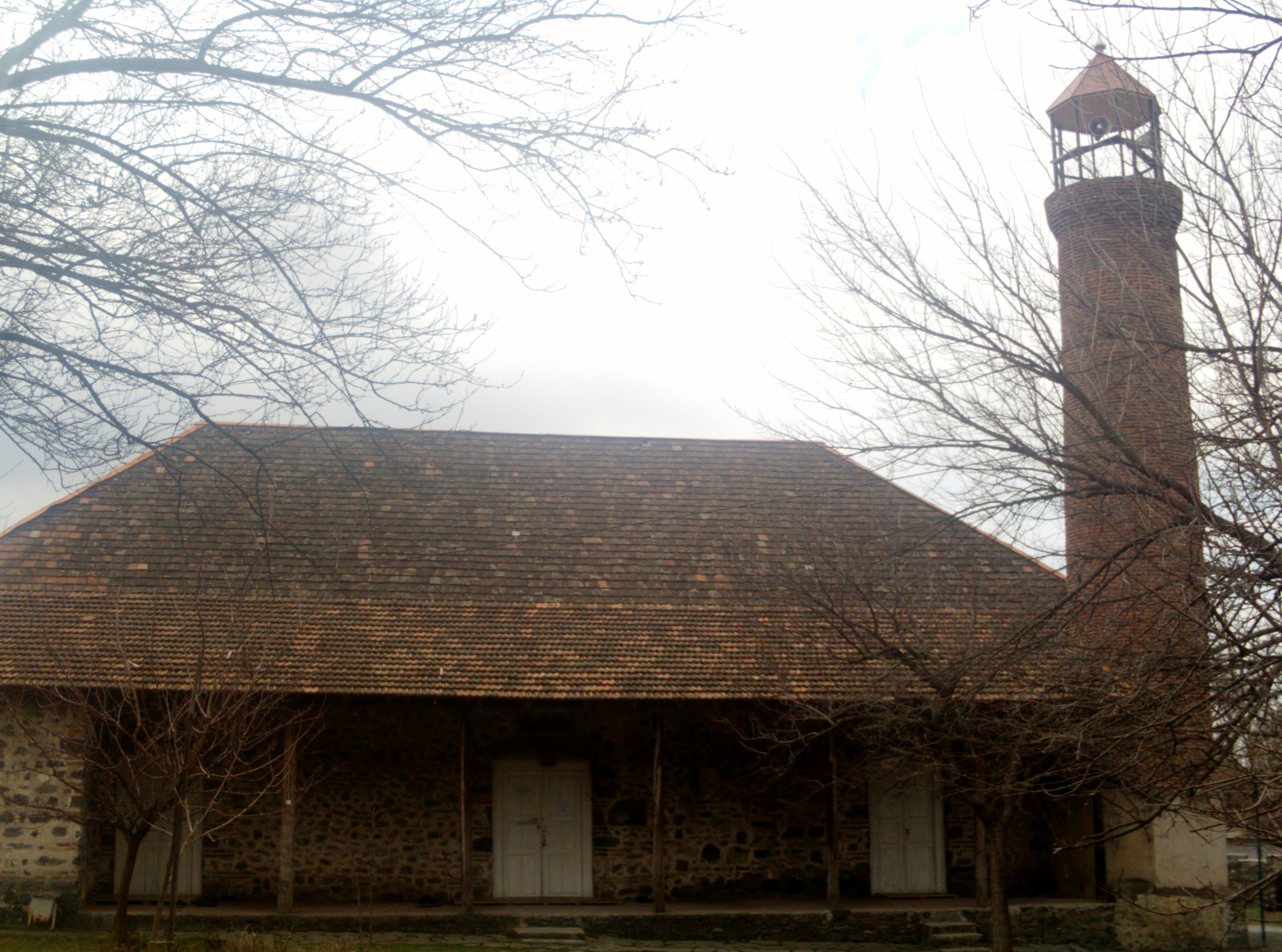 Gakhmughal mosque (Gakhmughal, Gakh Rayon). Built in 1740.